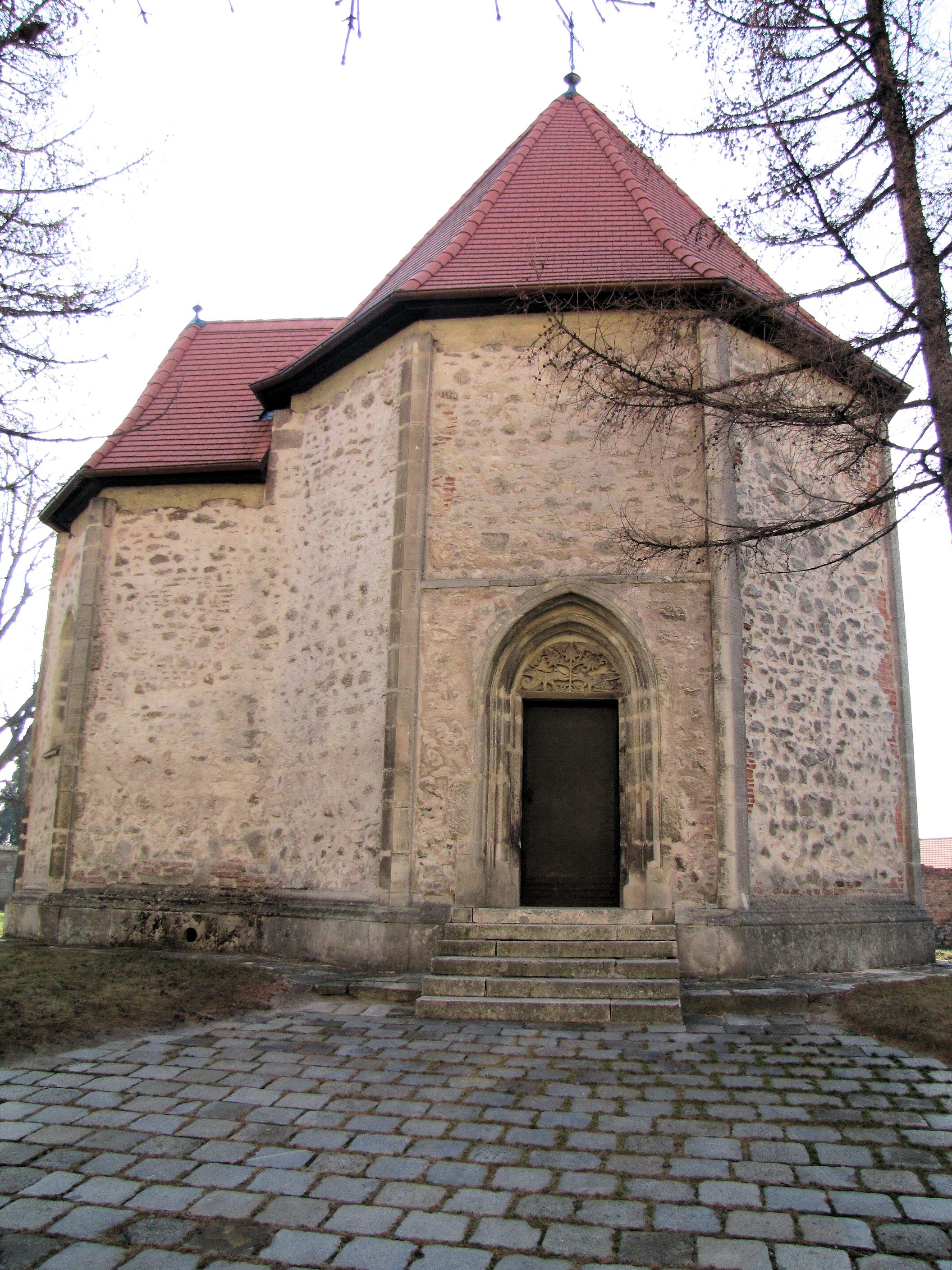 Sopron, Chapel of St James.